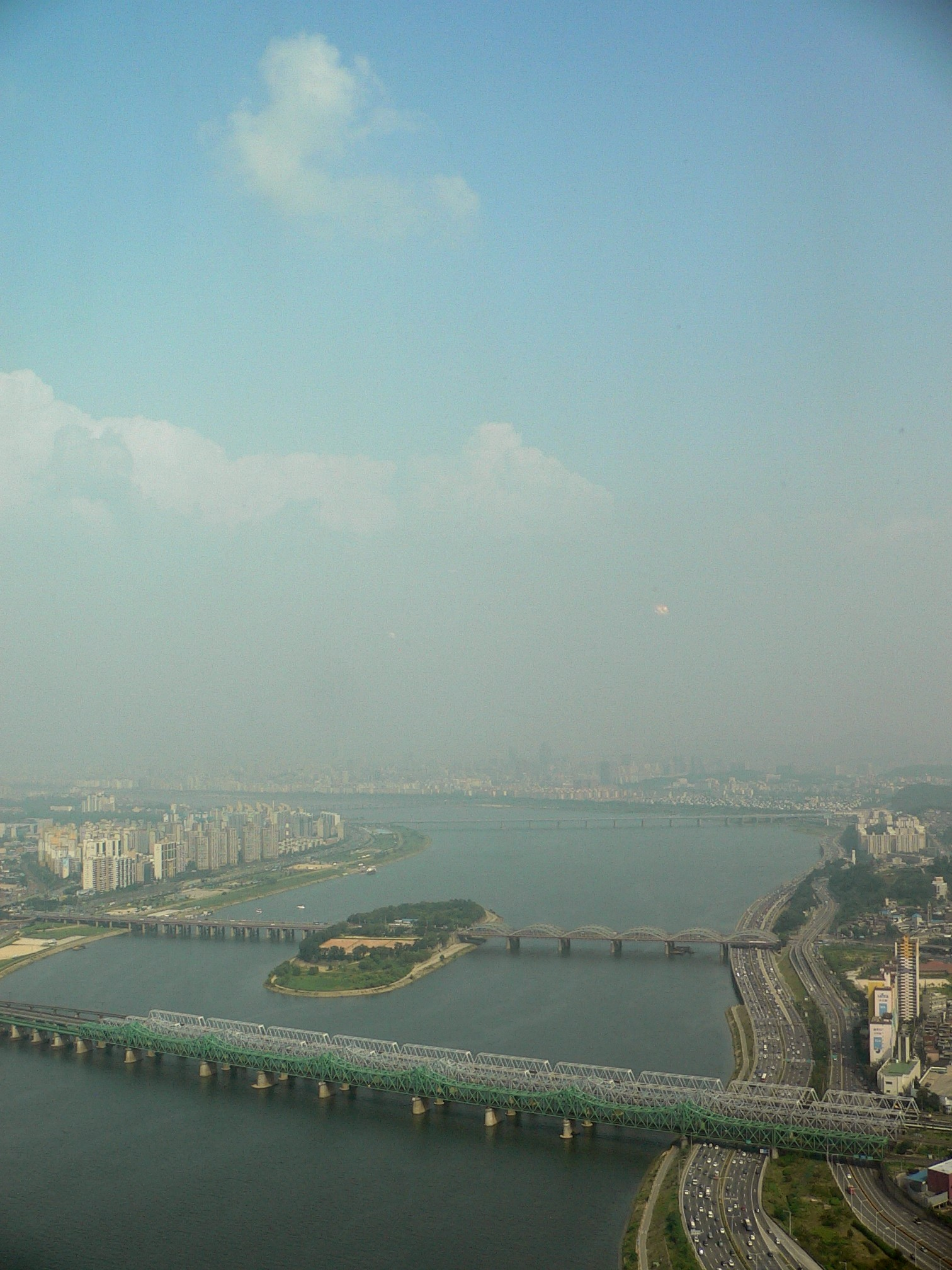 Hangang Bridge and Hangang Railway Bridge over Han River